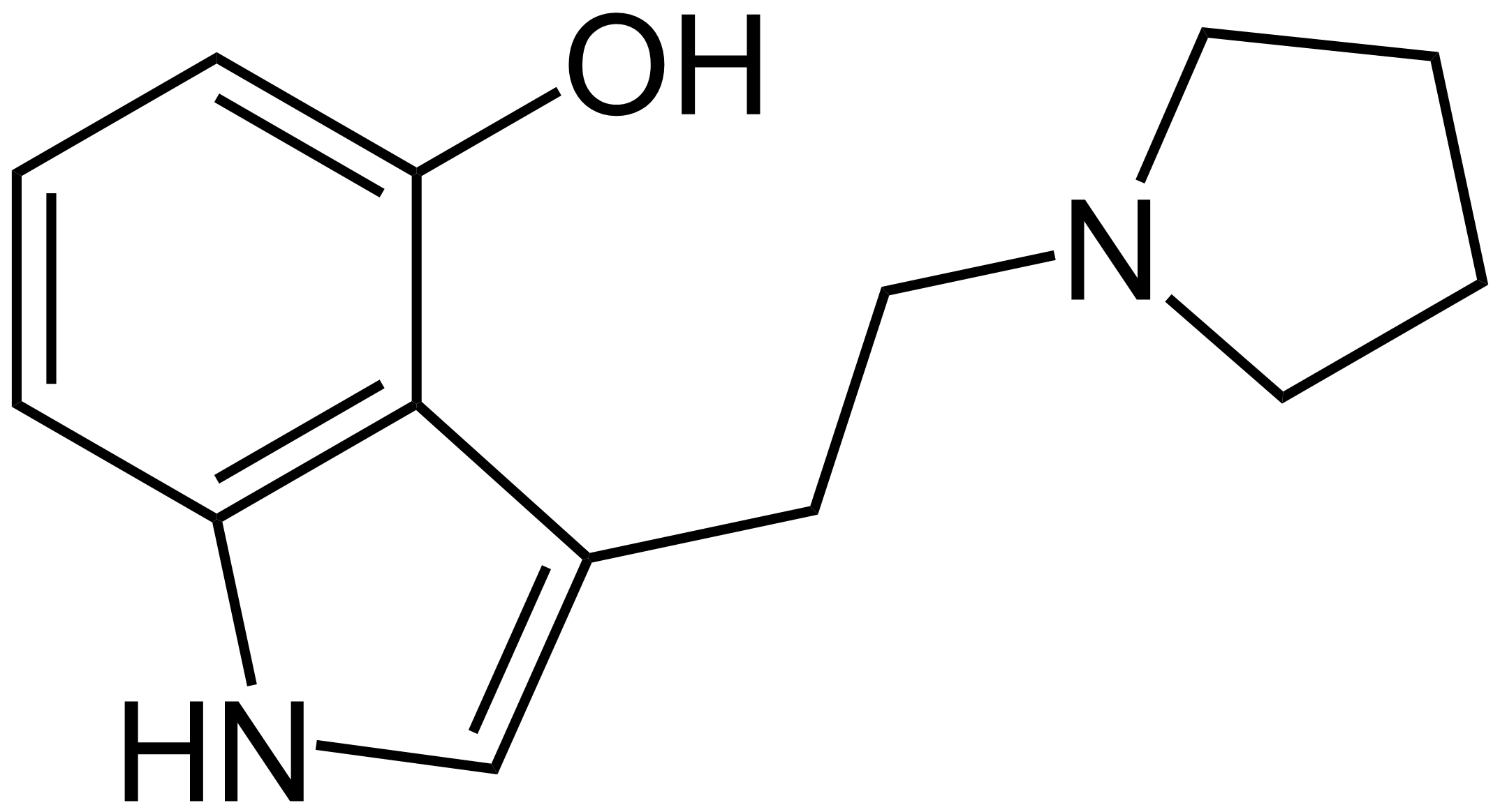 Chemical structure of 4-HO-pyr-T